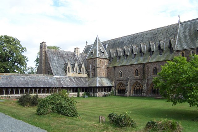 St Michael's College, Tenbury The main College building and cloister